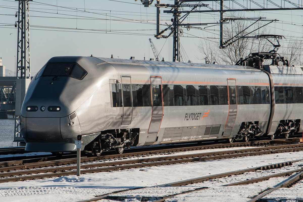 Flytoget BFM 71115, part of the 71-15 trainset, arriving in Drammen.